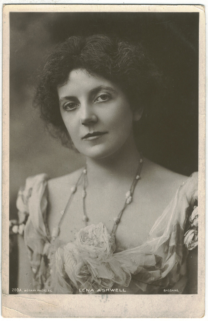 Rotary postcard featuring a photograph of actress Lena Ashwell.